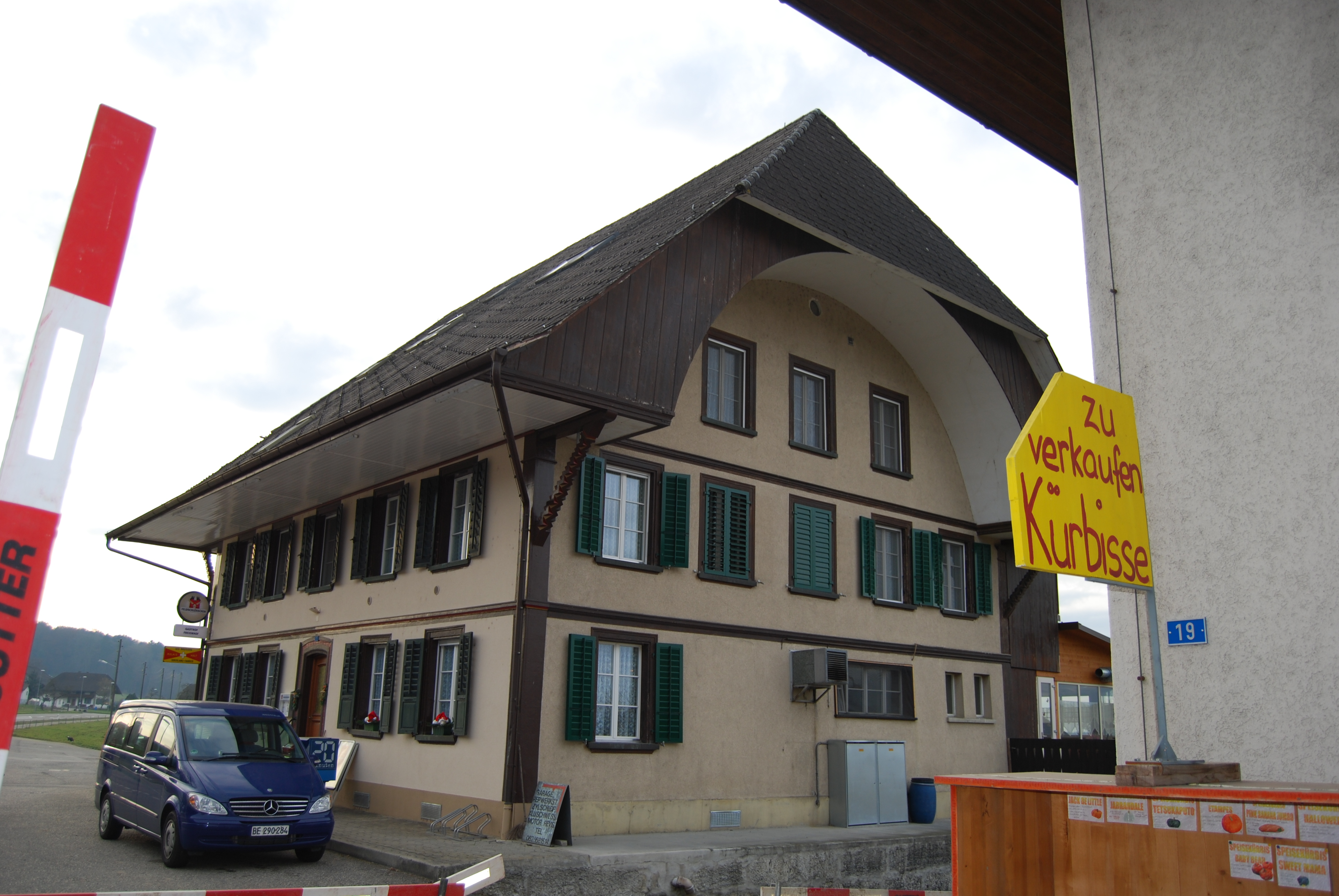 Hellsau, canton of Bern, SwitzerlandEsperanto: Hellsau, Kantono Berno, Svislando